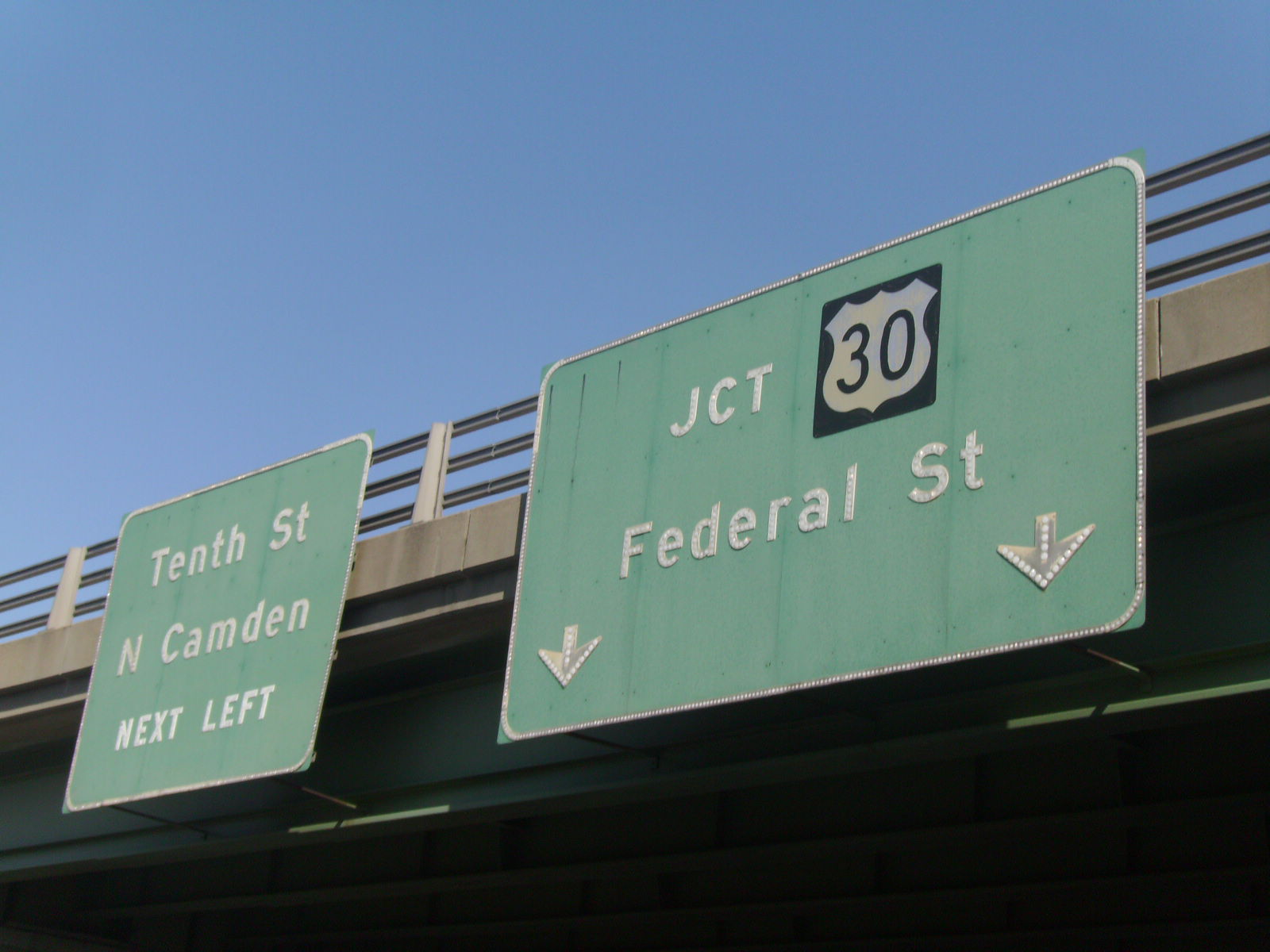 County Route 537 heading eastward along Federal Street at a disconnected portion of Tenth Street near U.S. Route 30 in Camden.